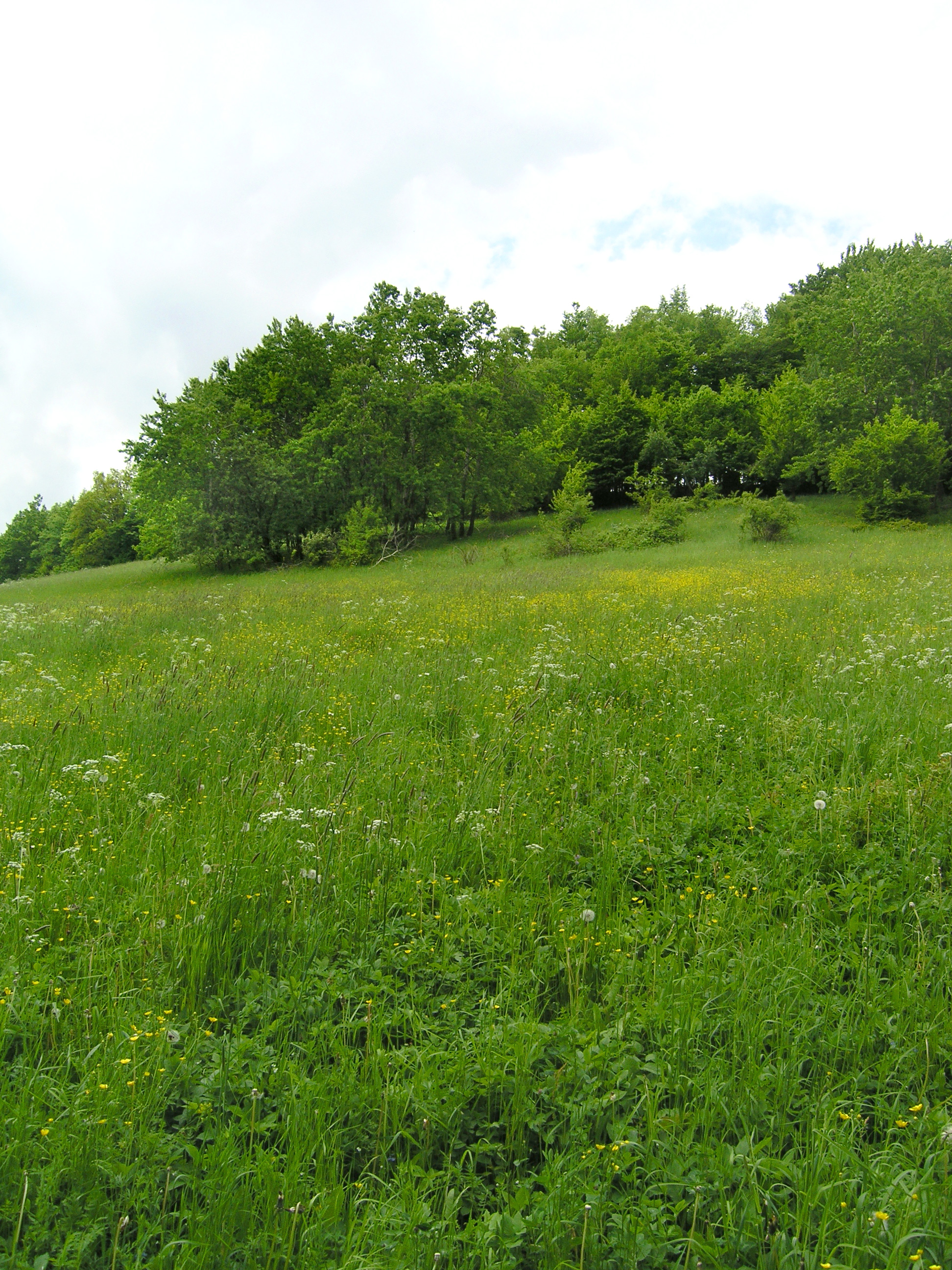 Natural monument Prlov II in Vsetín District, Czech Republic.